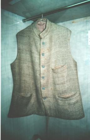 Photo taken by me at the Sardar Patel National Memorial, Ahmedabad.